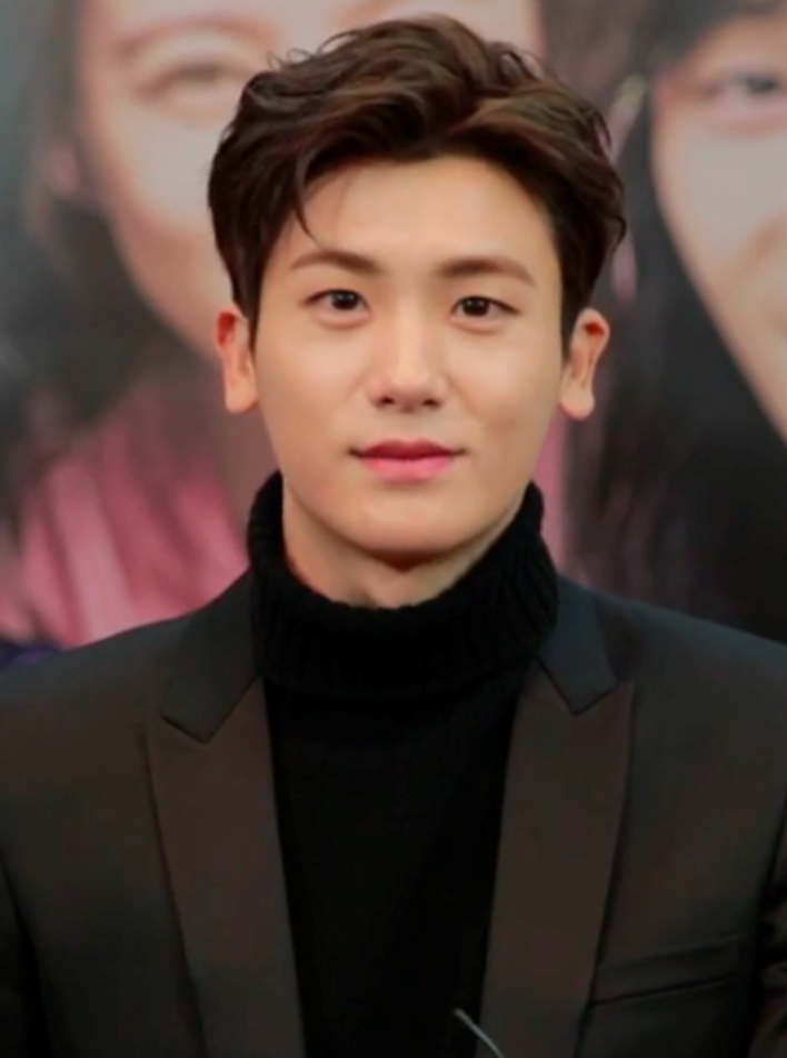 Park Hyung-sik promoting the drama Hwarang, on January 5, 2017.